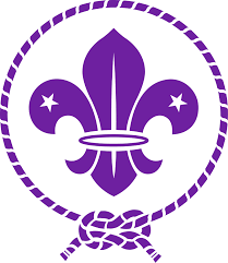 the trefoil of world scouting